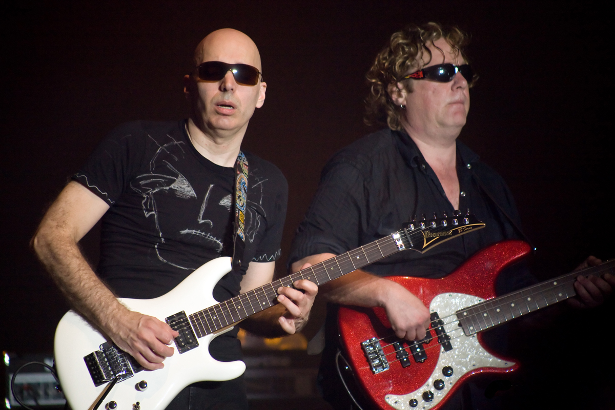 Joe Satriani and Stuart Hamm in concert, Rijnhal, Arnhem (June 12., 2008) Fender Stu Hamm Urge II Bass guiar